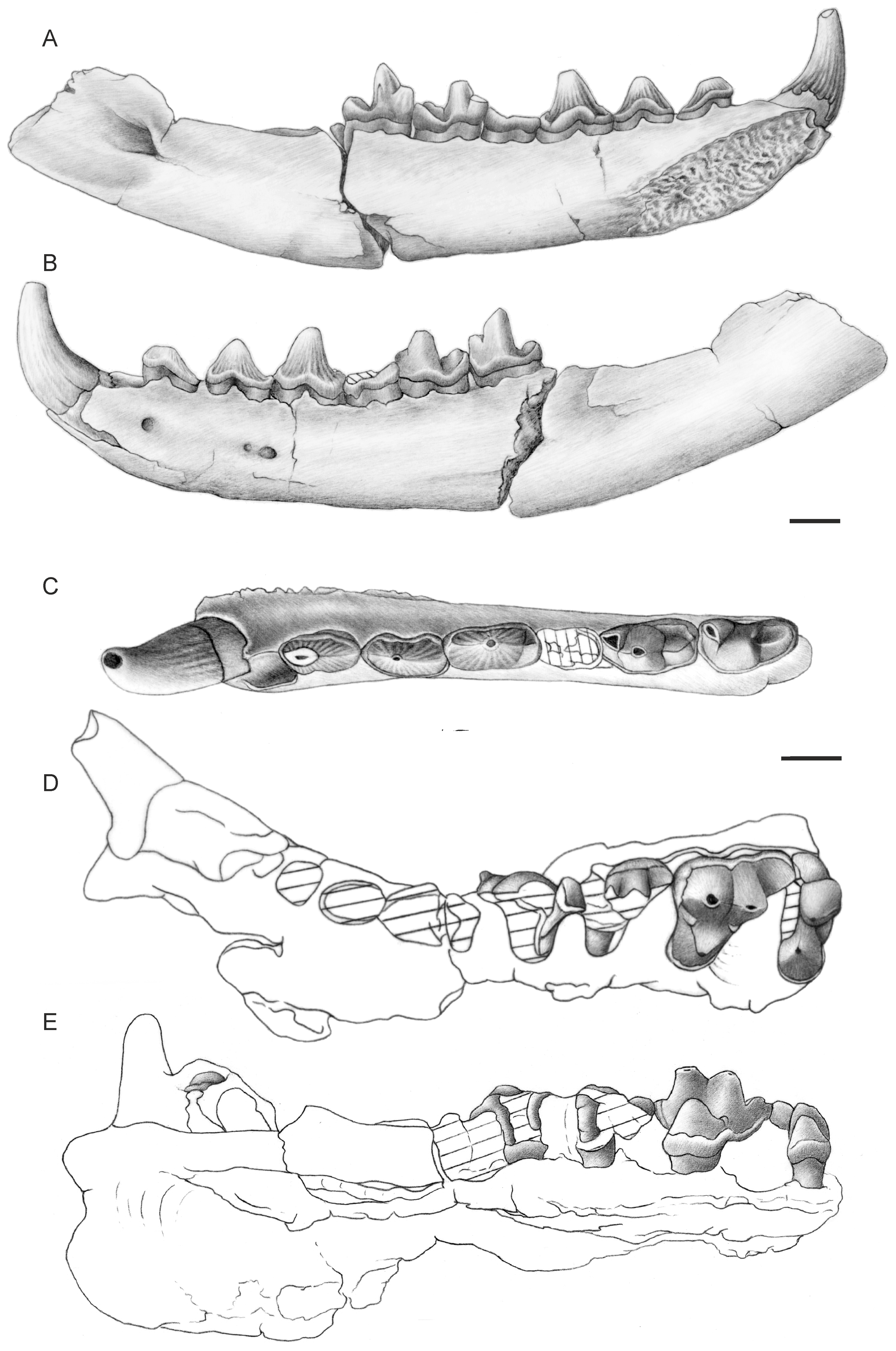 Dental material of Apterodon langebadreae nov. sp. BMNH M 85298, left mandible with c, p2-m3 and alveoli of i1–i3 and p1, in lingual (A), in labial (B), and in occlusal (C) views; BMNH M 85300, left maxilla with C-P1, P4-M3 and alveoli of P2–P3, in occlusal (D) and lingual (E) views. Scale = 1 cm. Drawings by Sabine Riffaut.